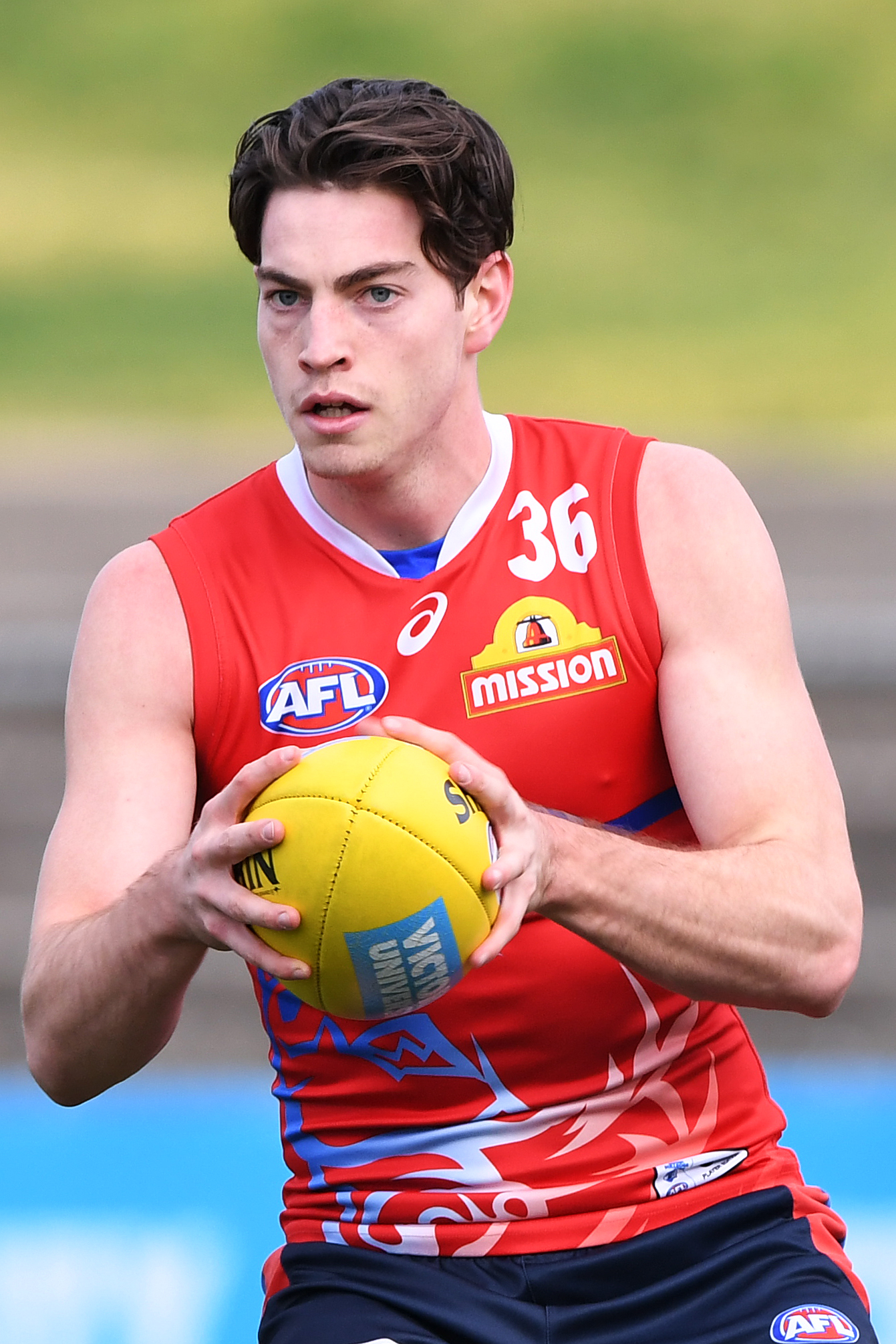 Brad Lynch of the Western Bulldogs during Western Bulldogs training on 7 August 2018 at Whitten Oval in Melbourne, Victoria.